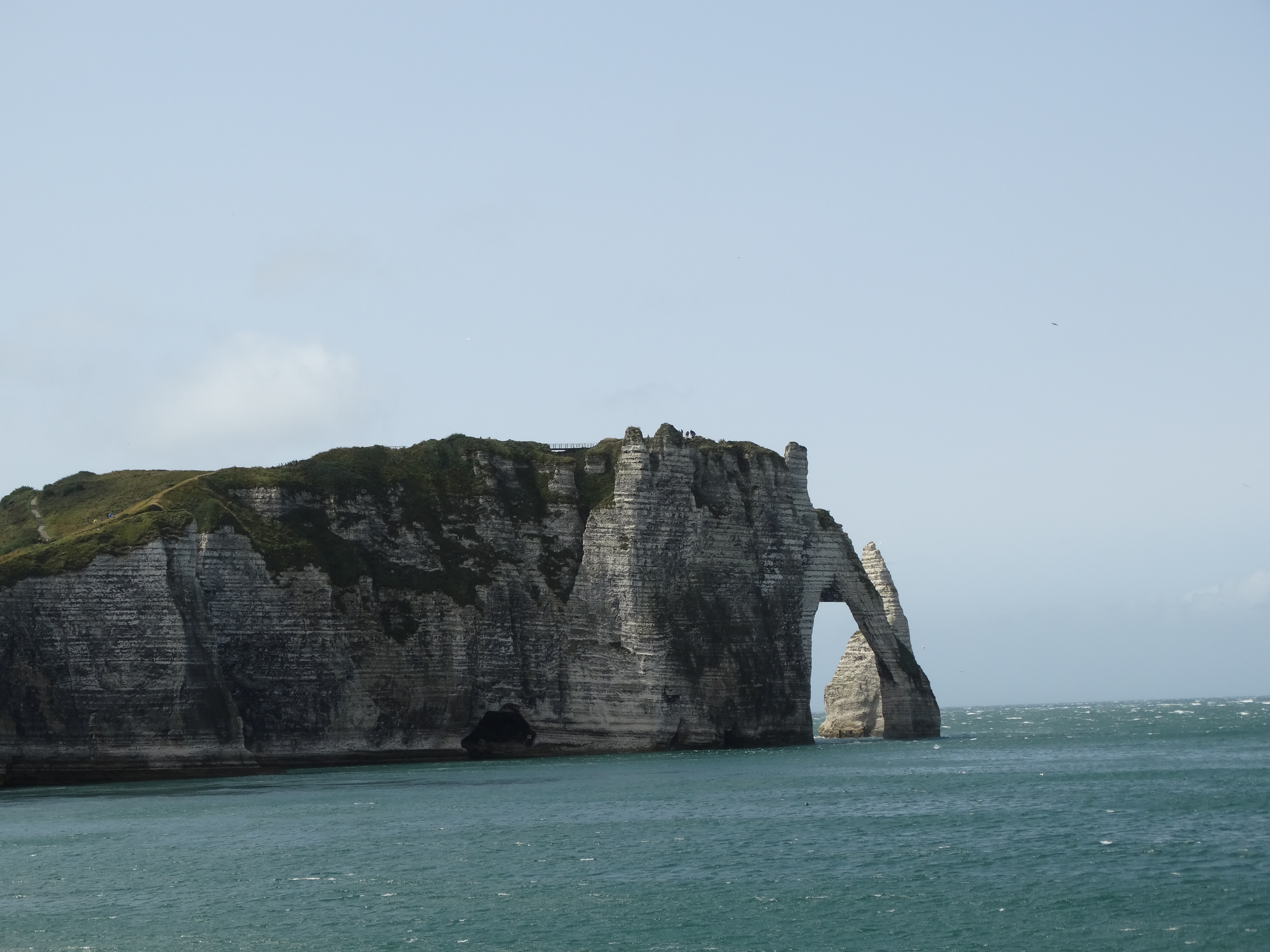 Étretat beach, 2014